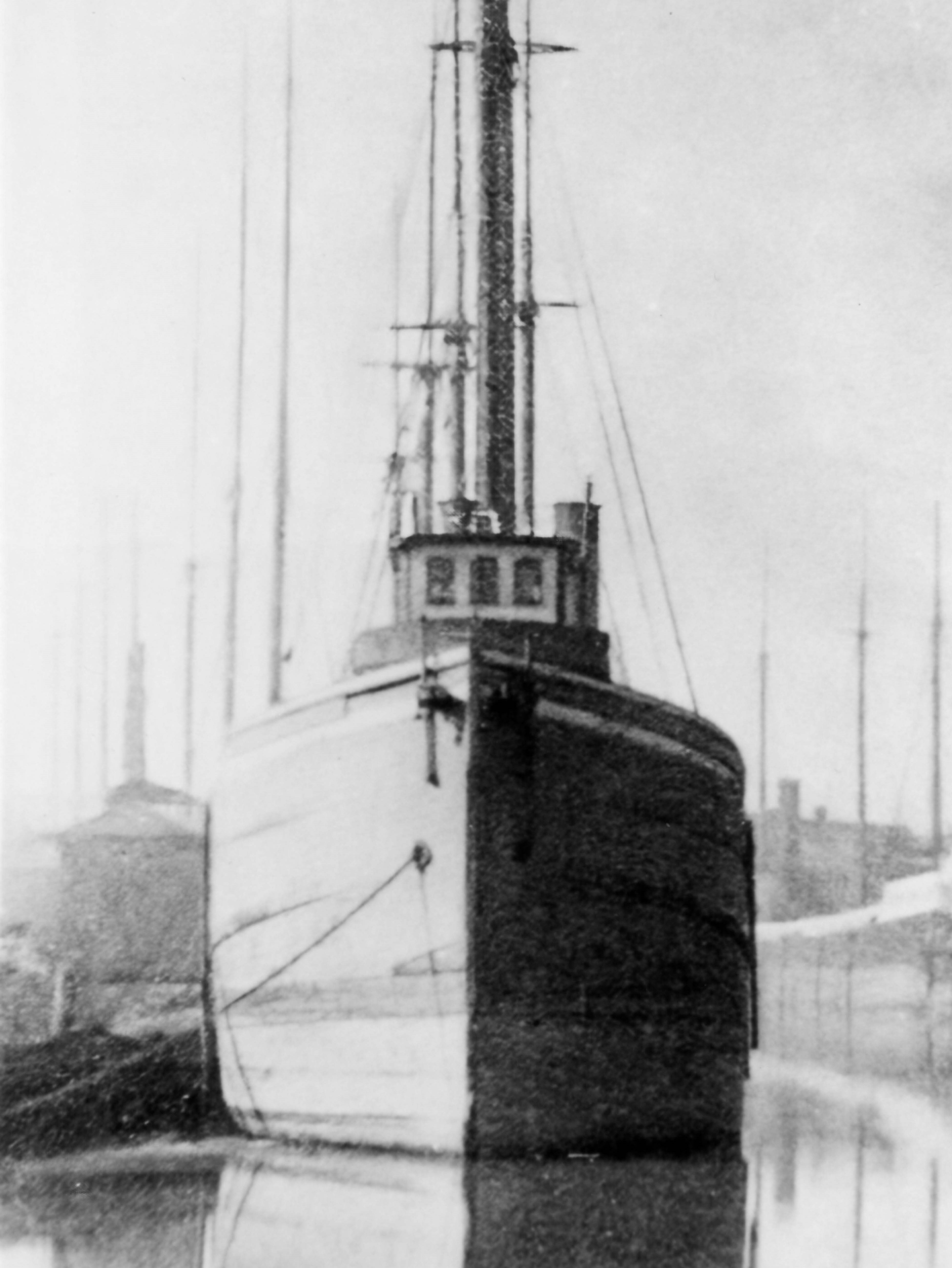 The steamer Selah Chamberlain before she sank